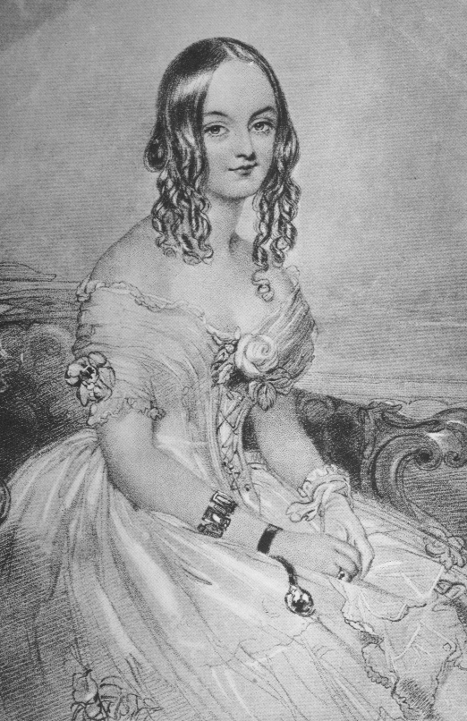 Teresa, Contessa Guiccioli (1800 – 1873) was the mistress of Lord Byron